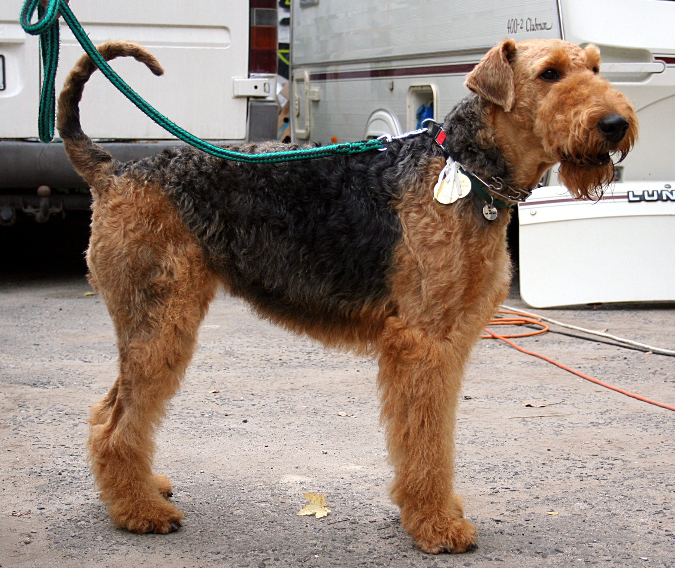 Airedale terrier during Dogs Show in Rybnik.